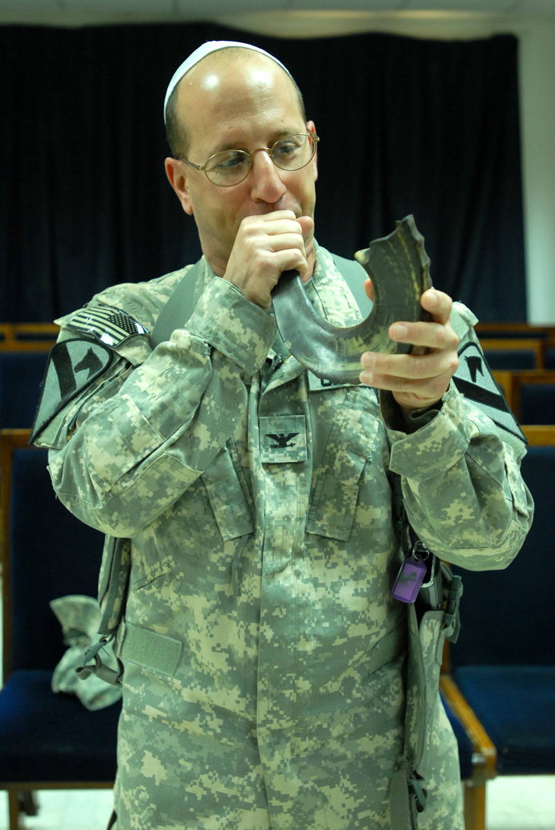 VICTORY BASE COMPLEX, Iraq - Col. Steven Bernstein, from St. Louis, Mo. sounds the ram's horn, also known as a shofar in Hebrew, after a Rosh Hashanah service here, Sept. 20. The shofar was sounded two days after the celebration of Rosh Hashanah, as the horn is not sounded on the Sabbath. "It brings back memories with my orthodox grandfather who first taught me how to blow shofar," said Bernstein, a flight surgeon, assigned to the 227th Attack Reconnaissance Battalion, 1st Air Cavalry Brigade. Celebrating the Jewish New Year has been a good opportunity to remember the important things and think more profoundly about life, spirituality, friends and health, he said.